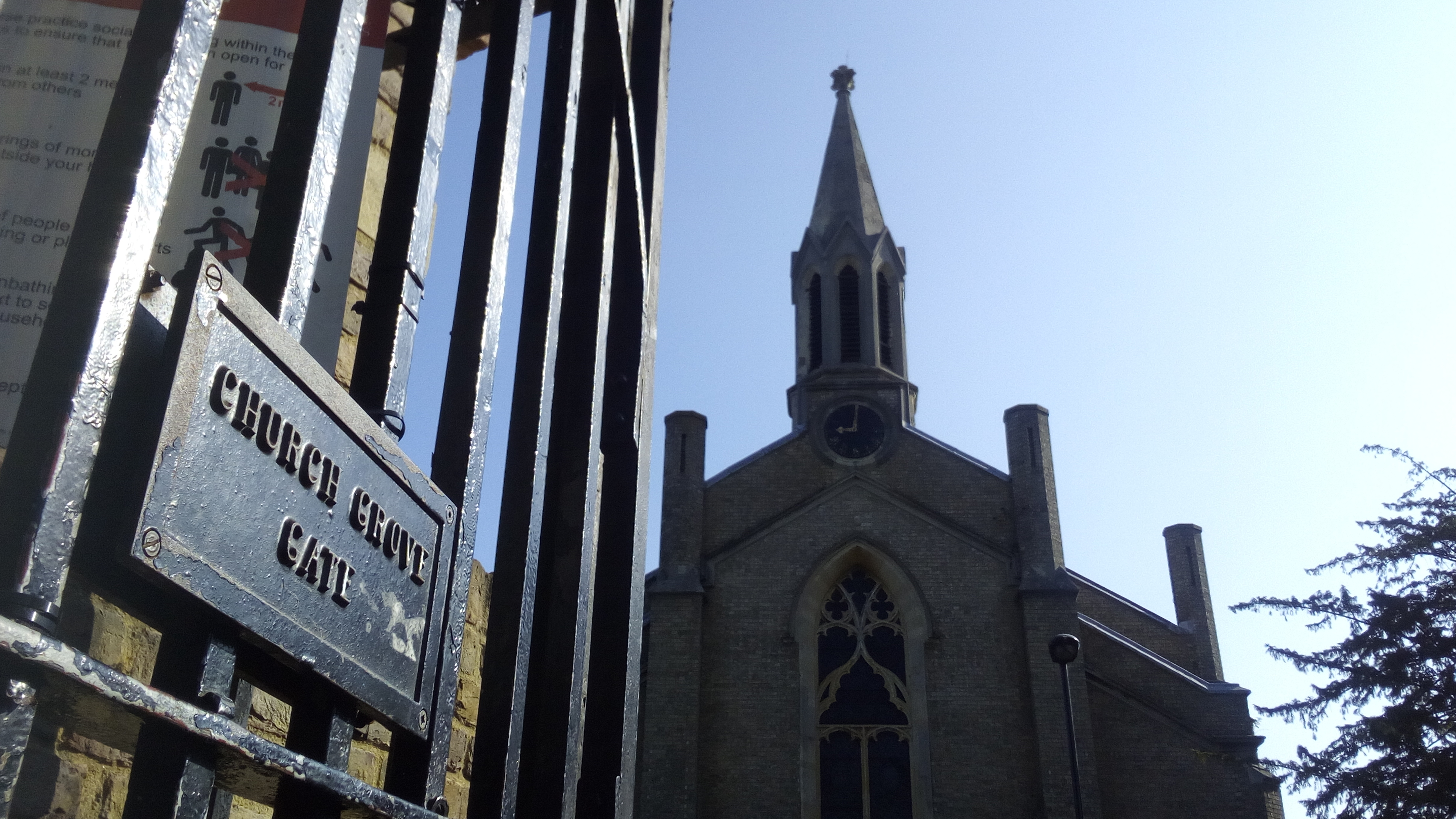 The Bushy Park's Church Grove Gate opposite St John's church, Hampton Wick, Greater London, on the 3rd of August, 2020.